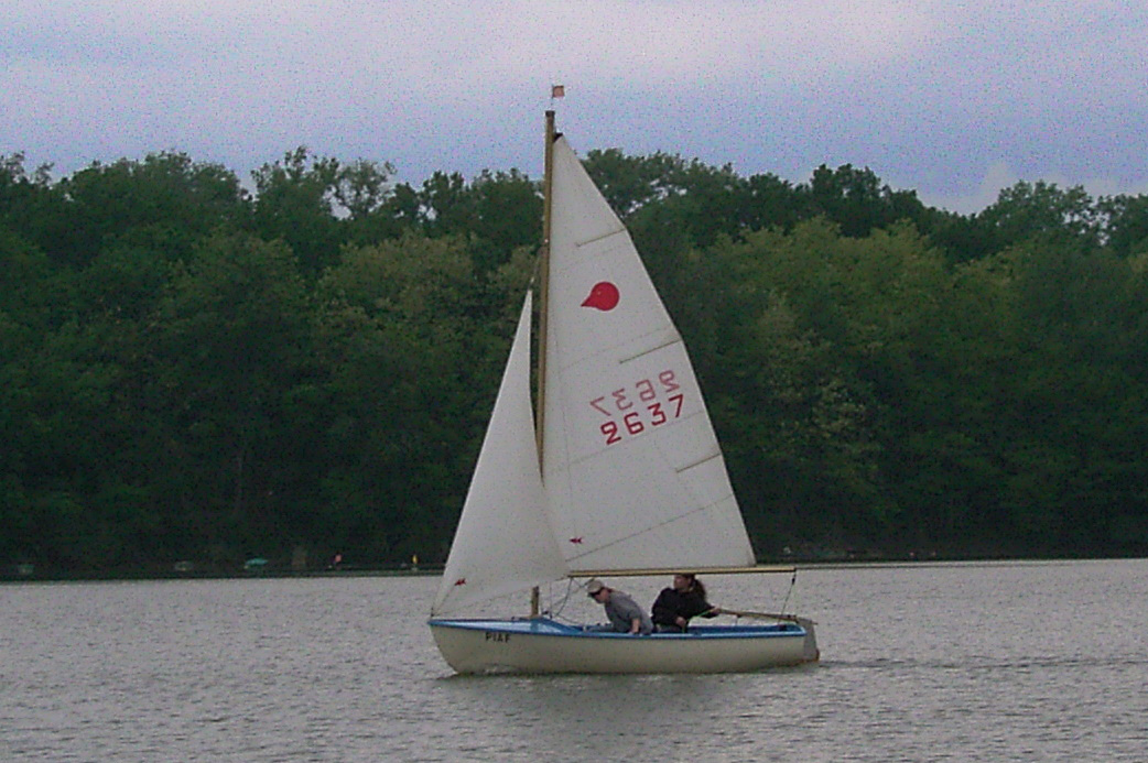 A sailing Piaf (dinghy)